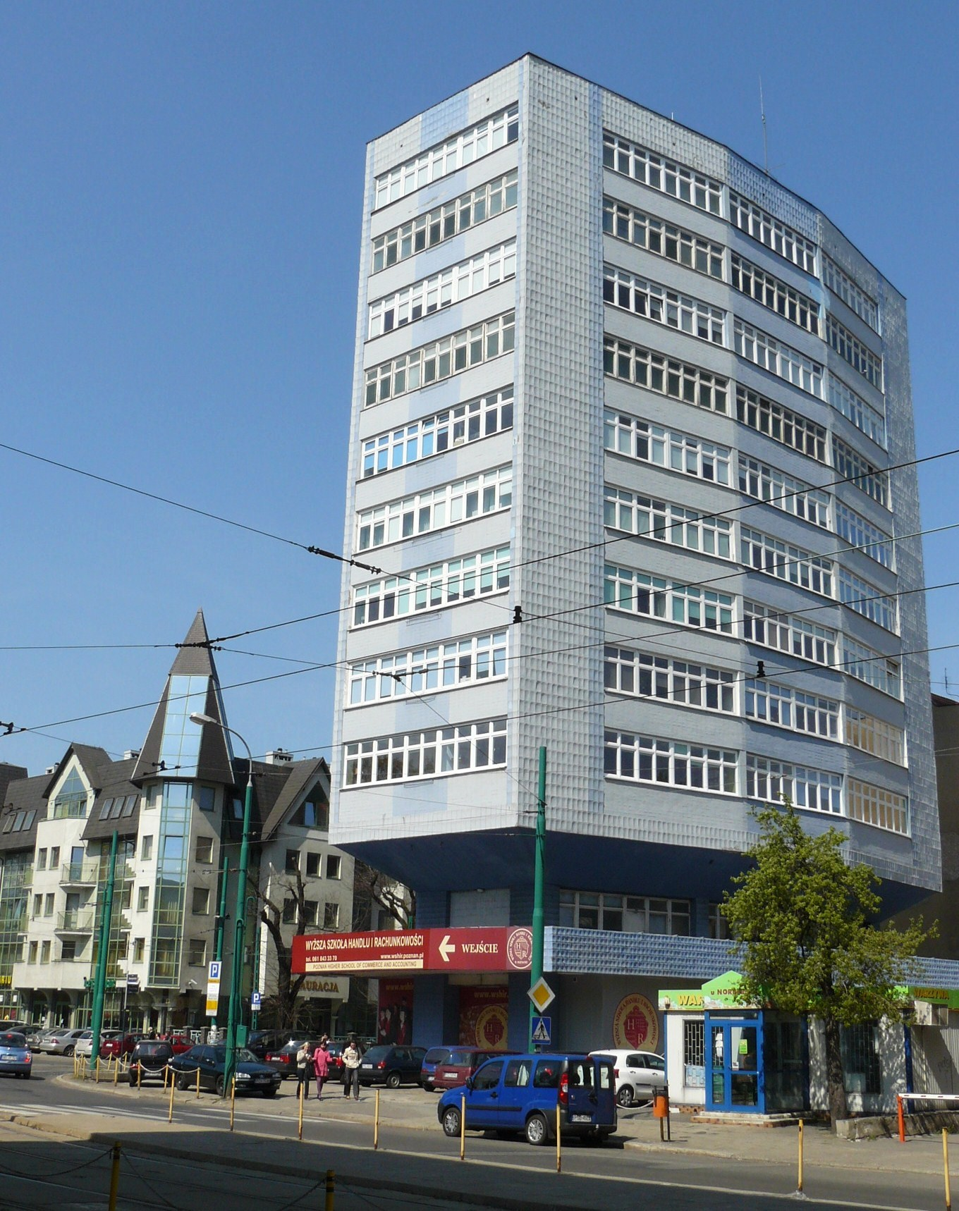 Poznan - Buildings-Ceramical Society Tower.